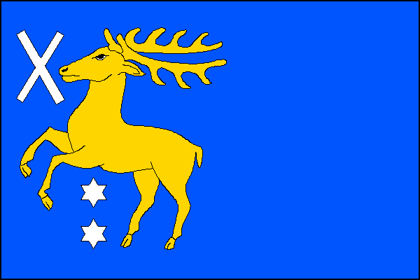 Municipal flag of Sány village, Nymburk District, Czech Republic.